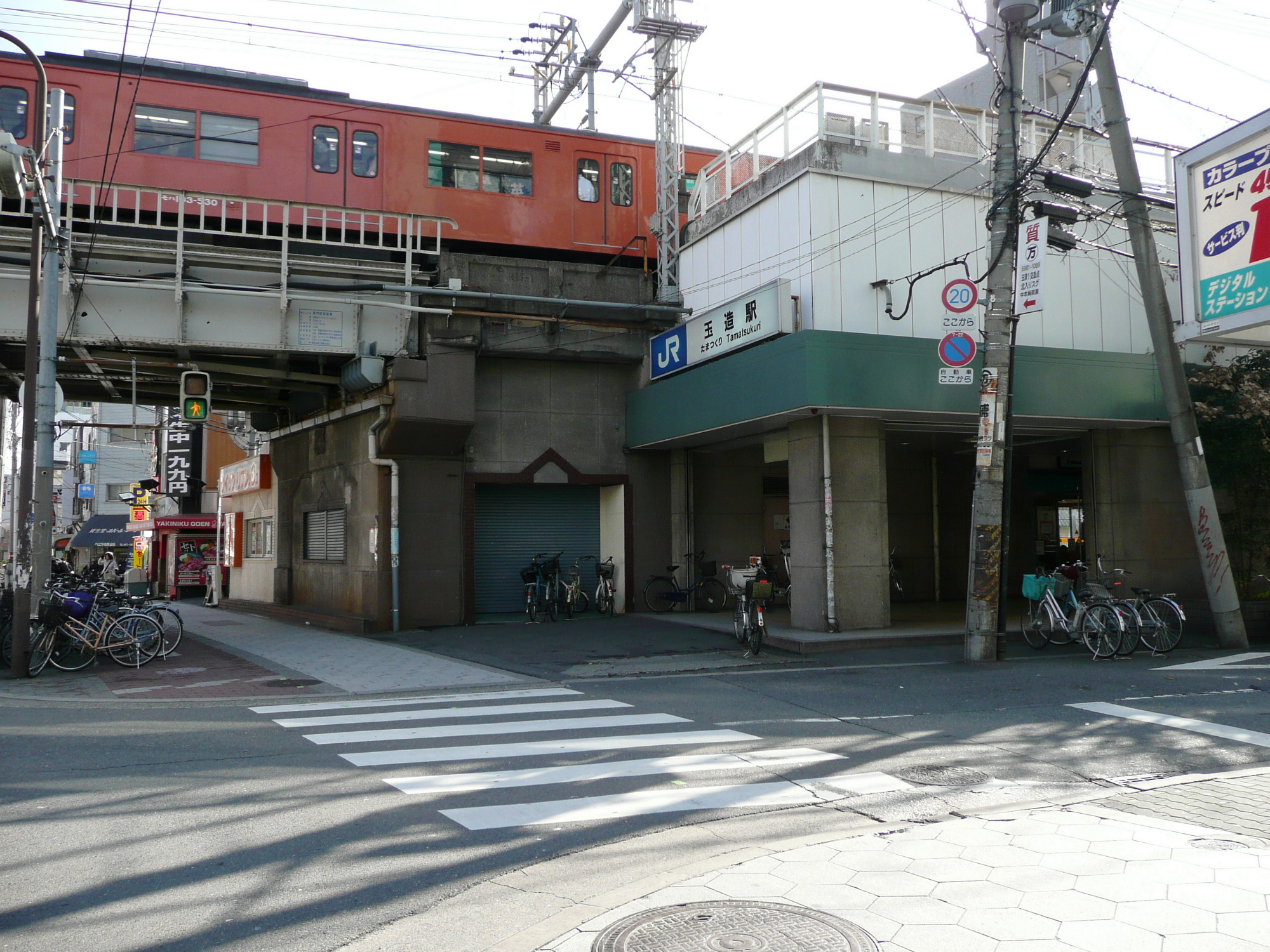 West Japan Railway,Osaka roop Line,Tamatsukuri Station north entrance. / 大阪環状線玉造駅北口